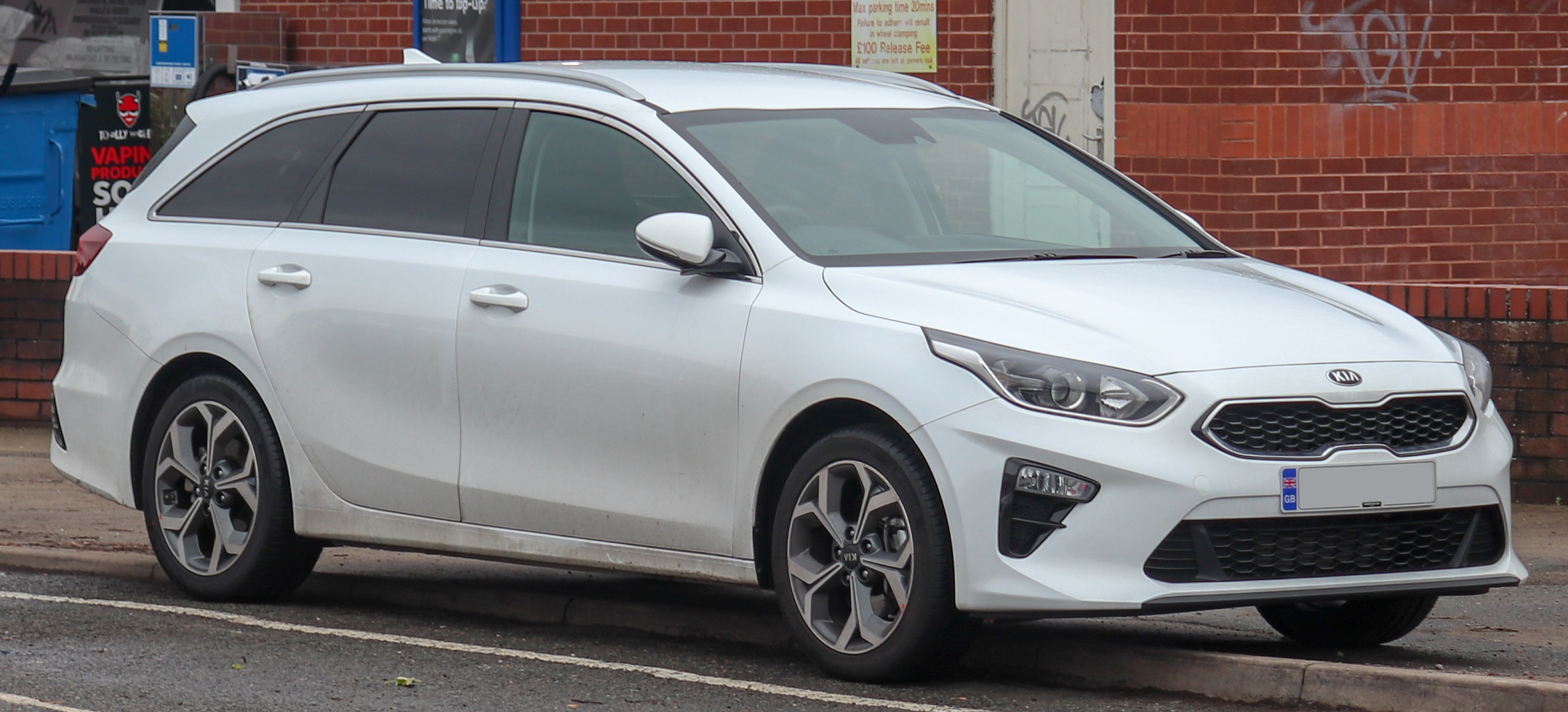 2018 Kia Ceed 3 SW CRDi ISG 1.6 Front Taken in Warwick